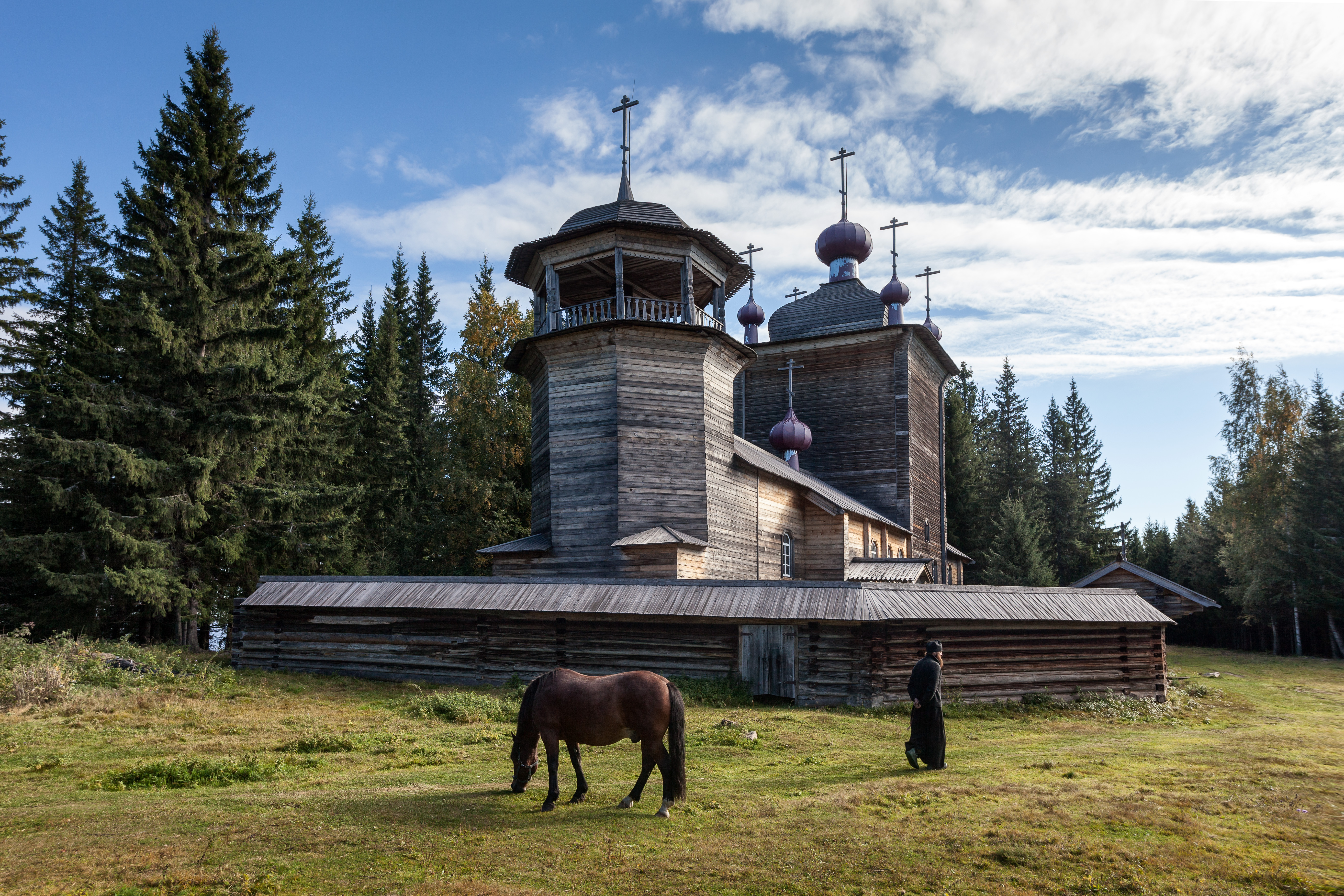 Ilyinsky Vodlozersky churchyard. 2010.